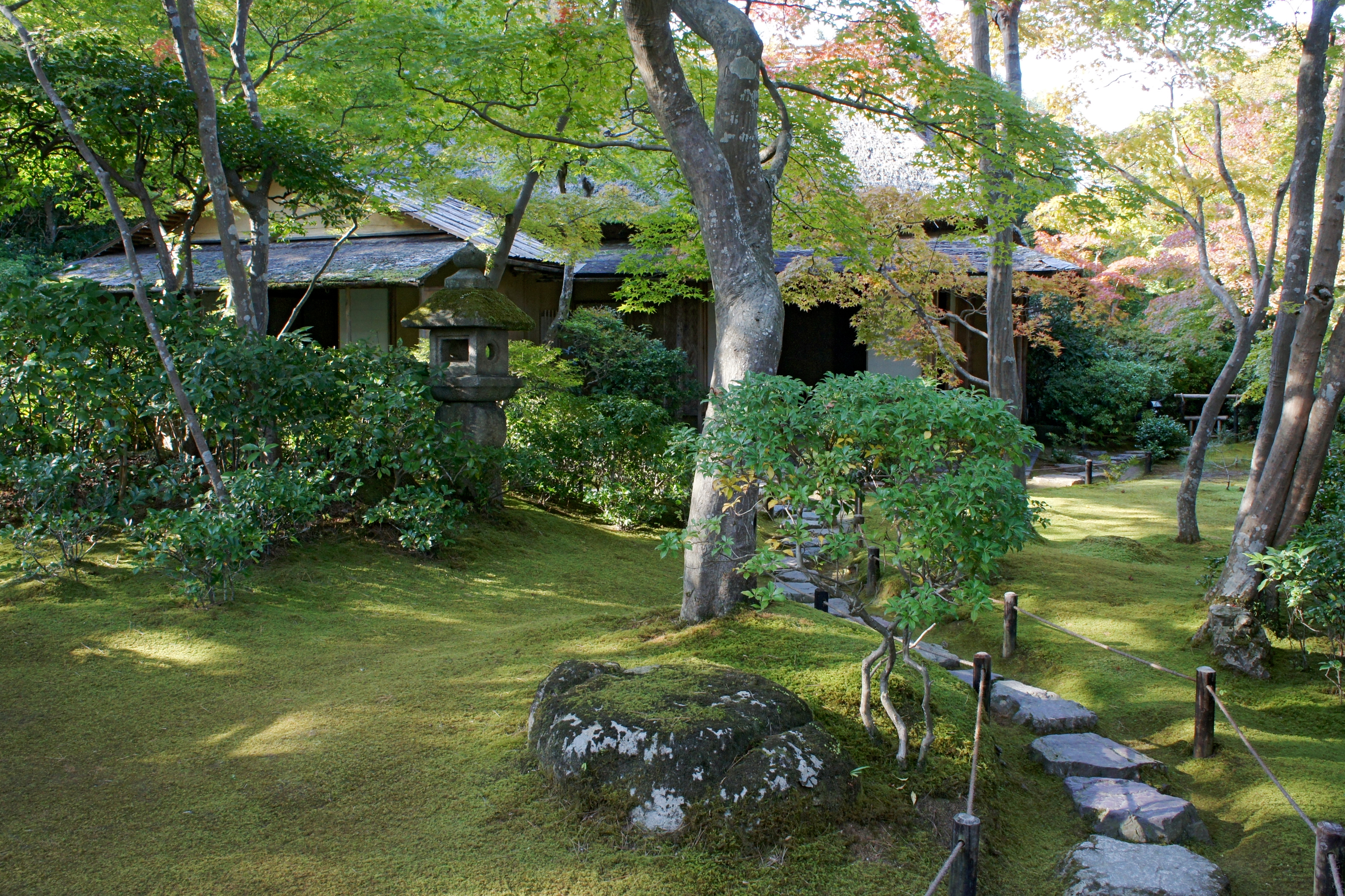 Ōkōchi Sansō in Ukyō-ku, Kyoto, Kyoto prefecture, Japan